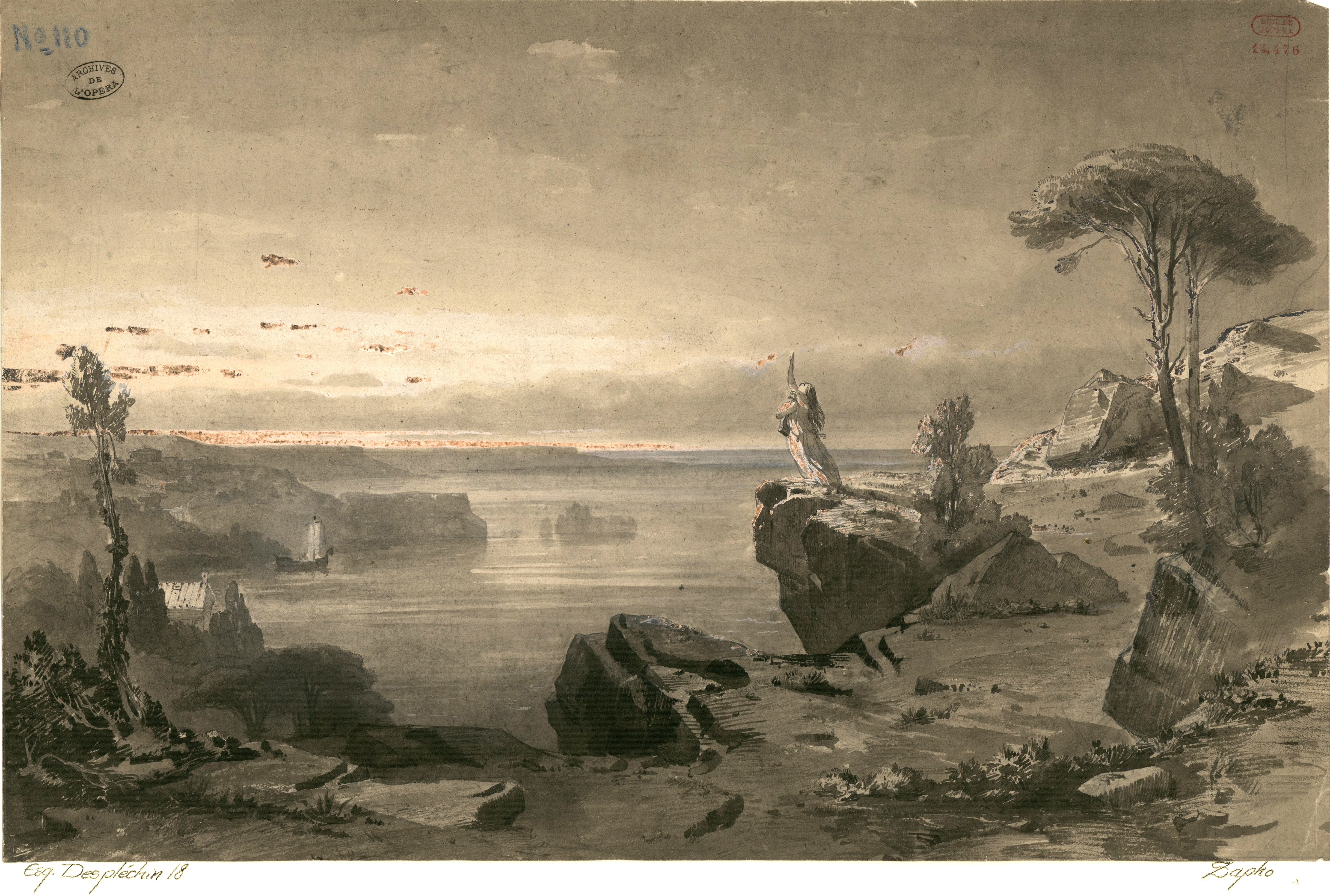 Set design sketch by Edouard Despléchin for the last scene of the opera Sapho by Charles Gounod for the original production at the Salle Le Peletier in Paris on 16 April 1851